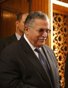 Iraqi President Jalal Talabani.